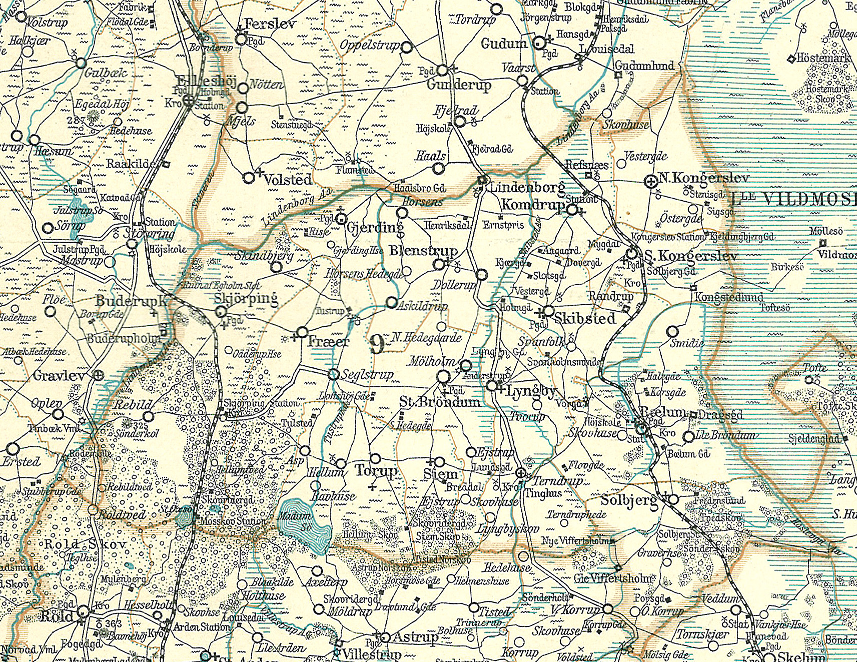 Map of Hellum Herred, Aalborg County in Denmark